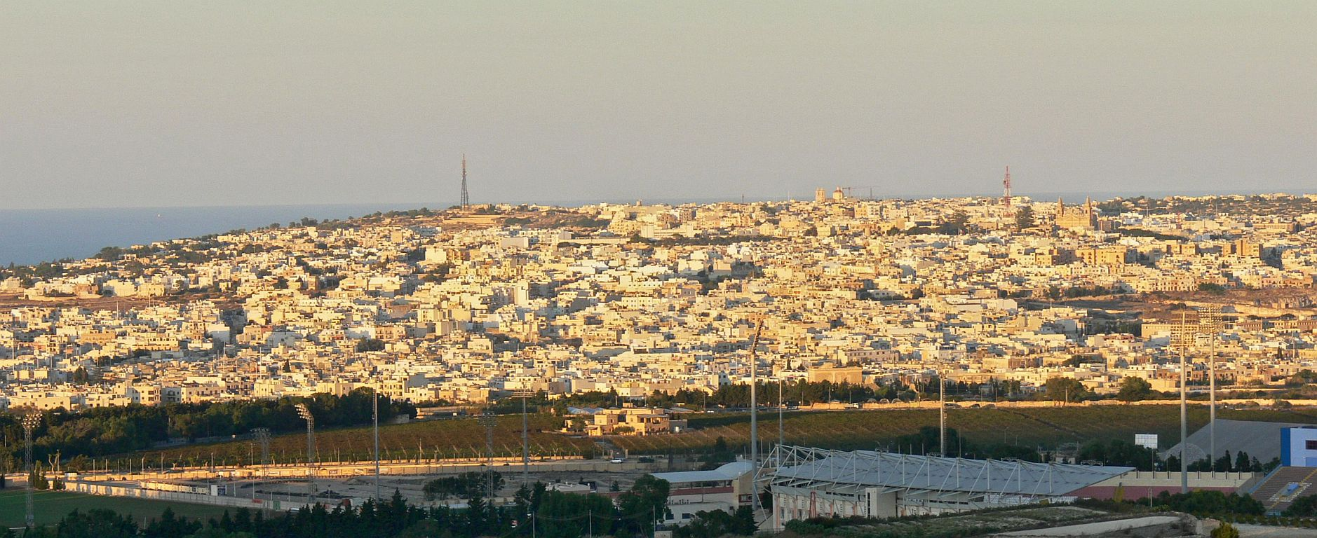 Panoramic view of In-Naxxar and Ħal Għargħur, Malta, seen from Mdina